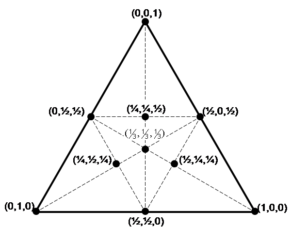 Barycentric co-ordinates in an equilateral triangle.